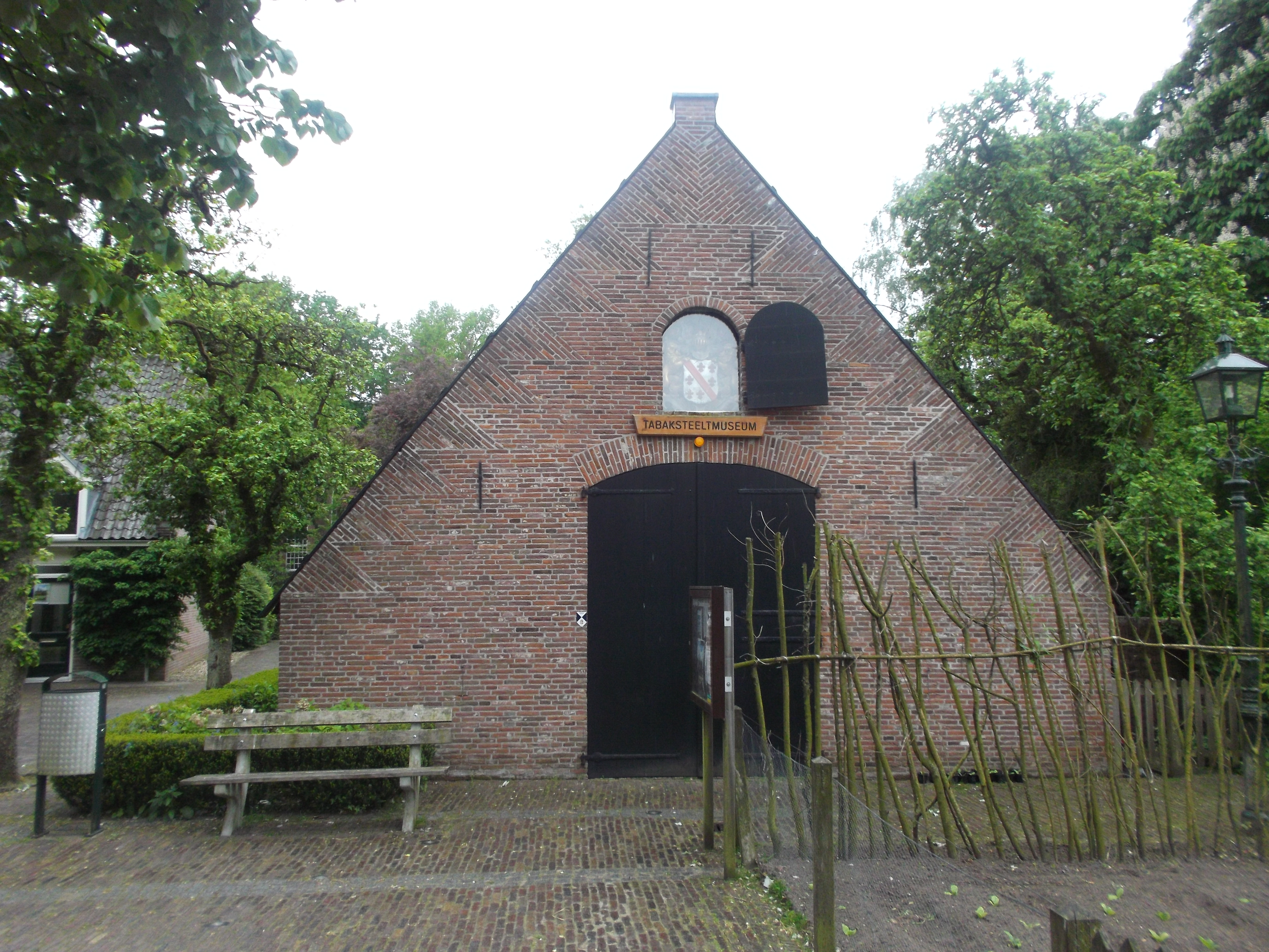 Tabaksteeltmuseum. Museum for cultivation of Tobacco, Amerongen, Utrecht, Nederland.